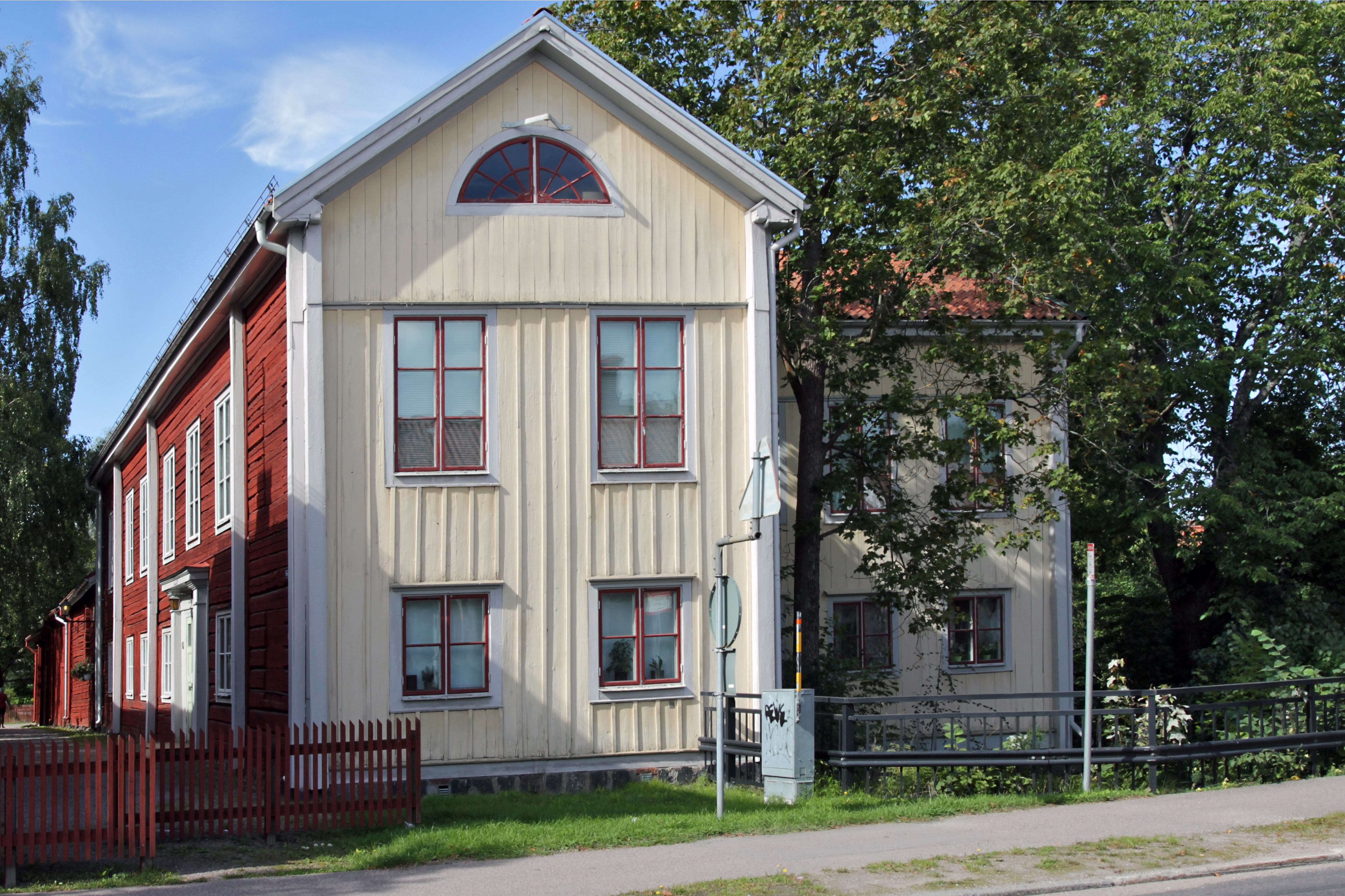 Böösgården, Avesta, Sweden